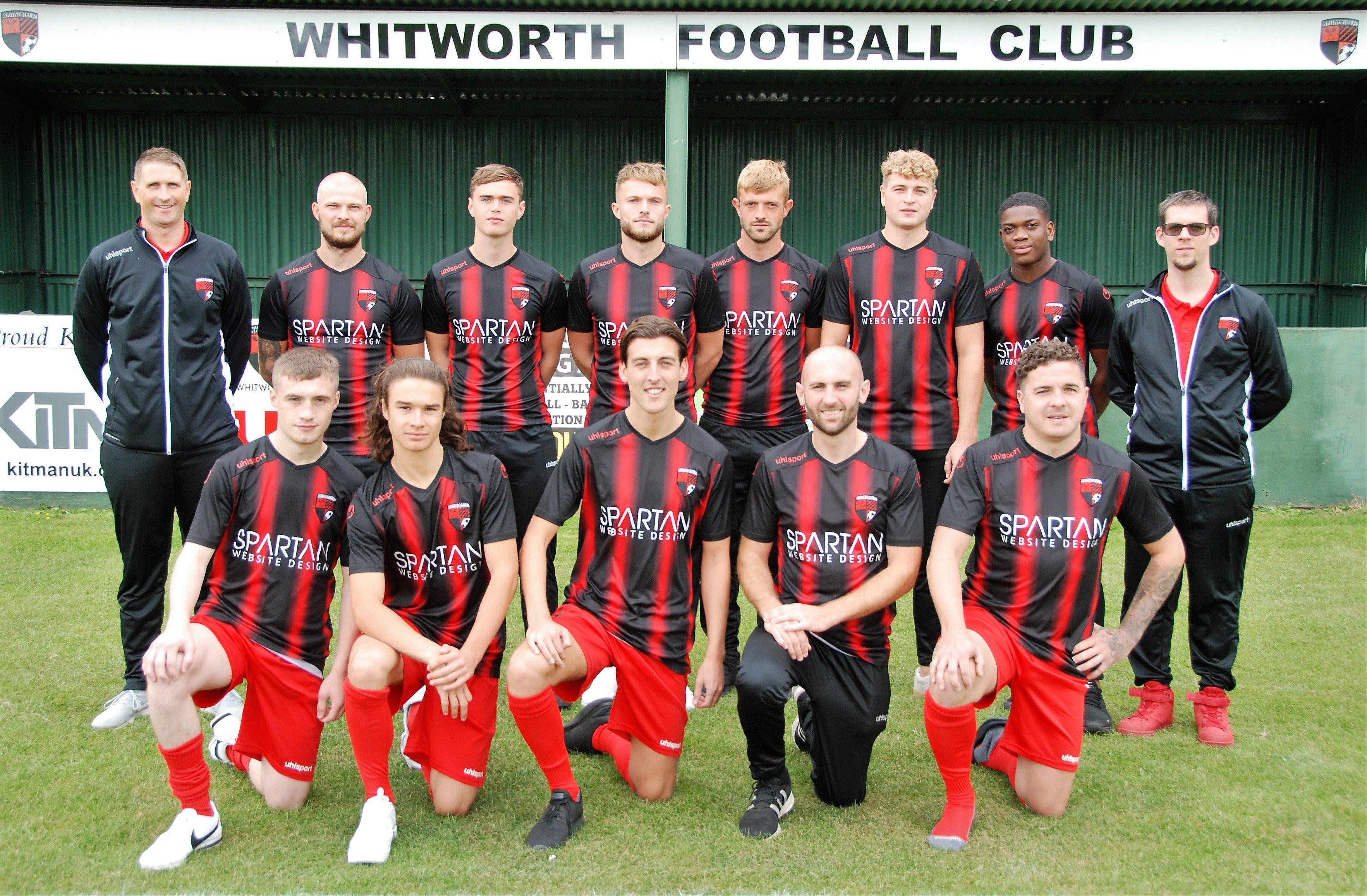 Whitworths 2019-2020